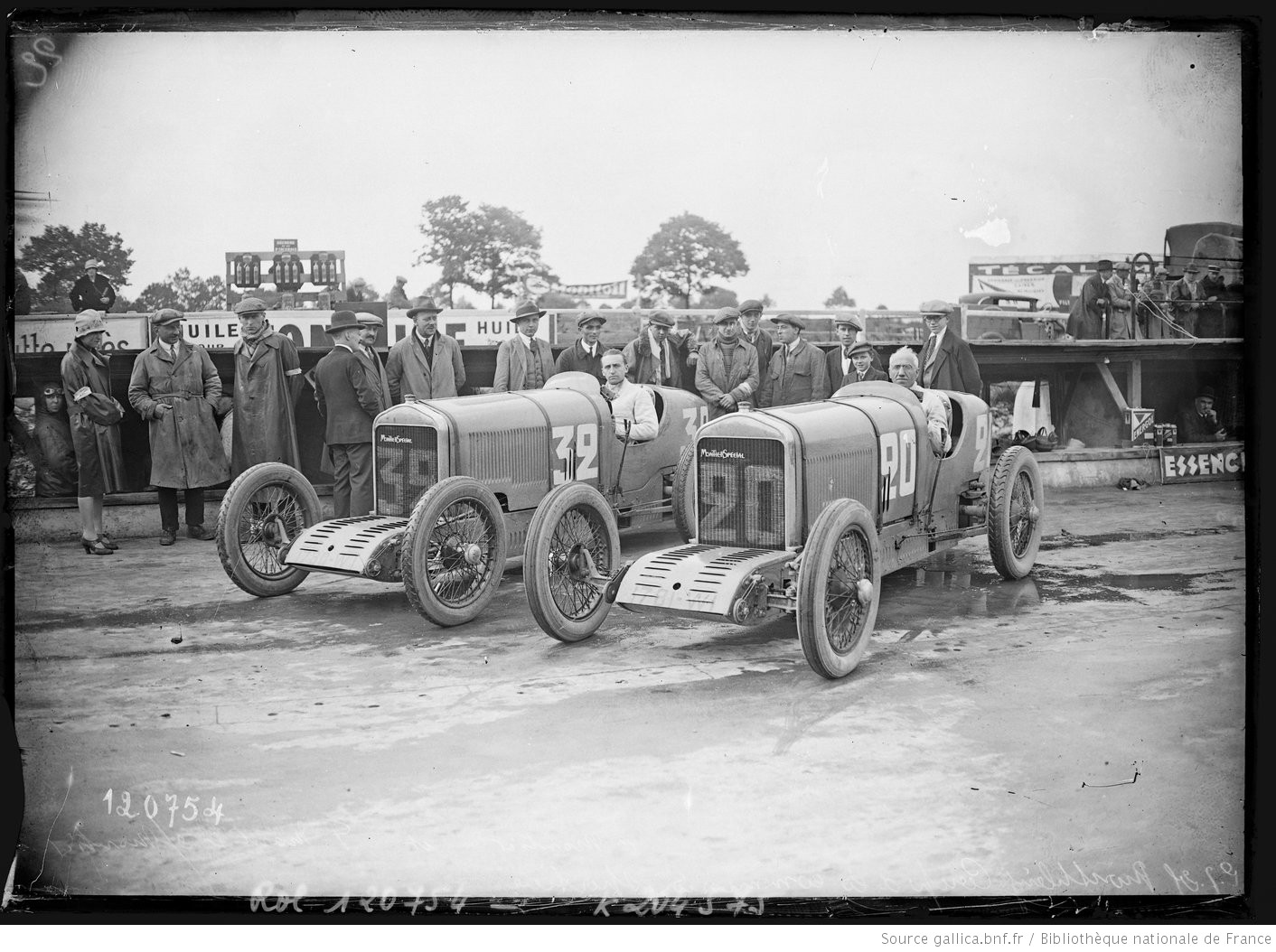 Ferdinand and Charles Montier in their Montier Special racing cars at the Coupe de la Commission Sportive, Circuit de Montlhéry, 2 July 1927, a support race on the weekend of the en:1927 French Grand Prix.